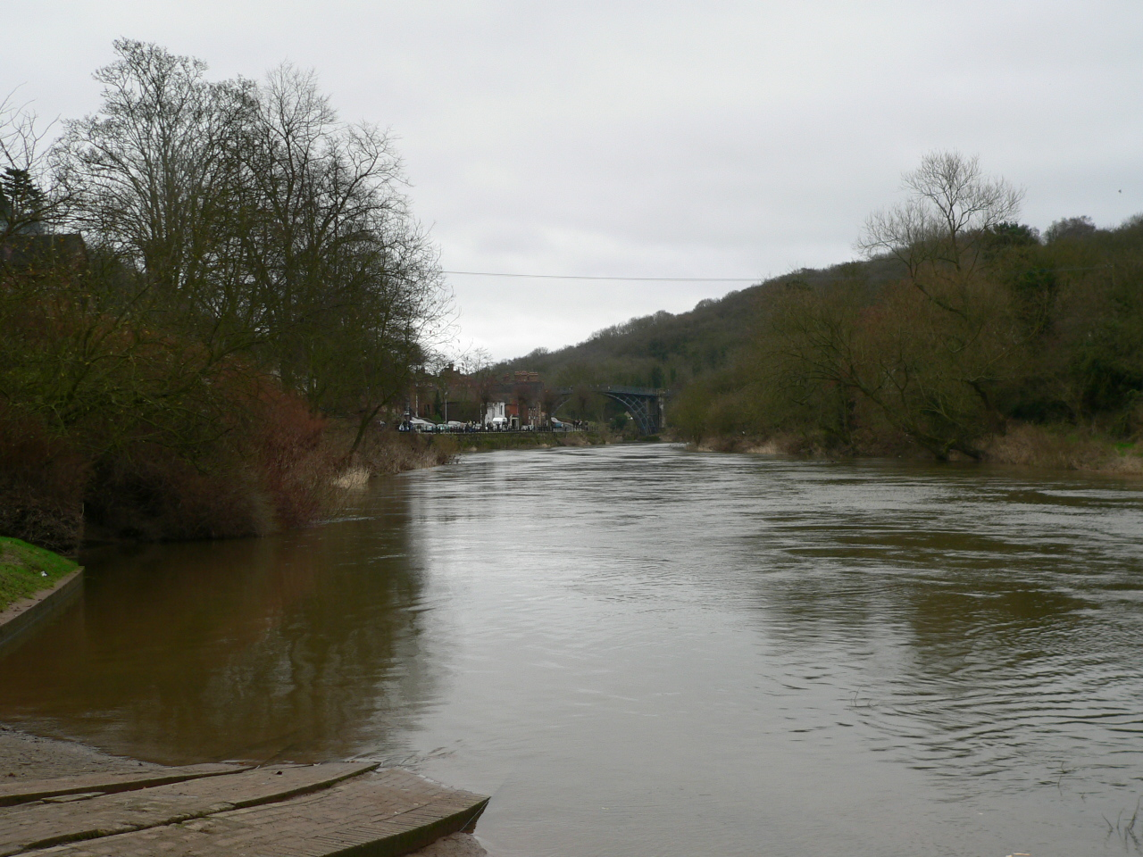 Ironbridge Gorge looking east towards The Iron Bridge from by the Museum of the Gorge.